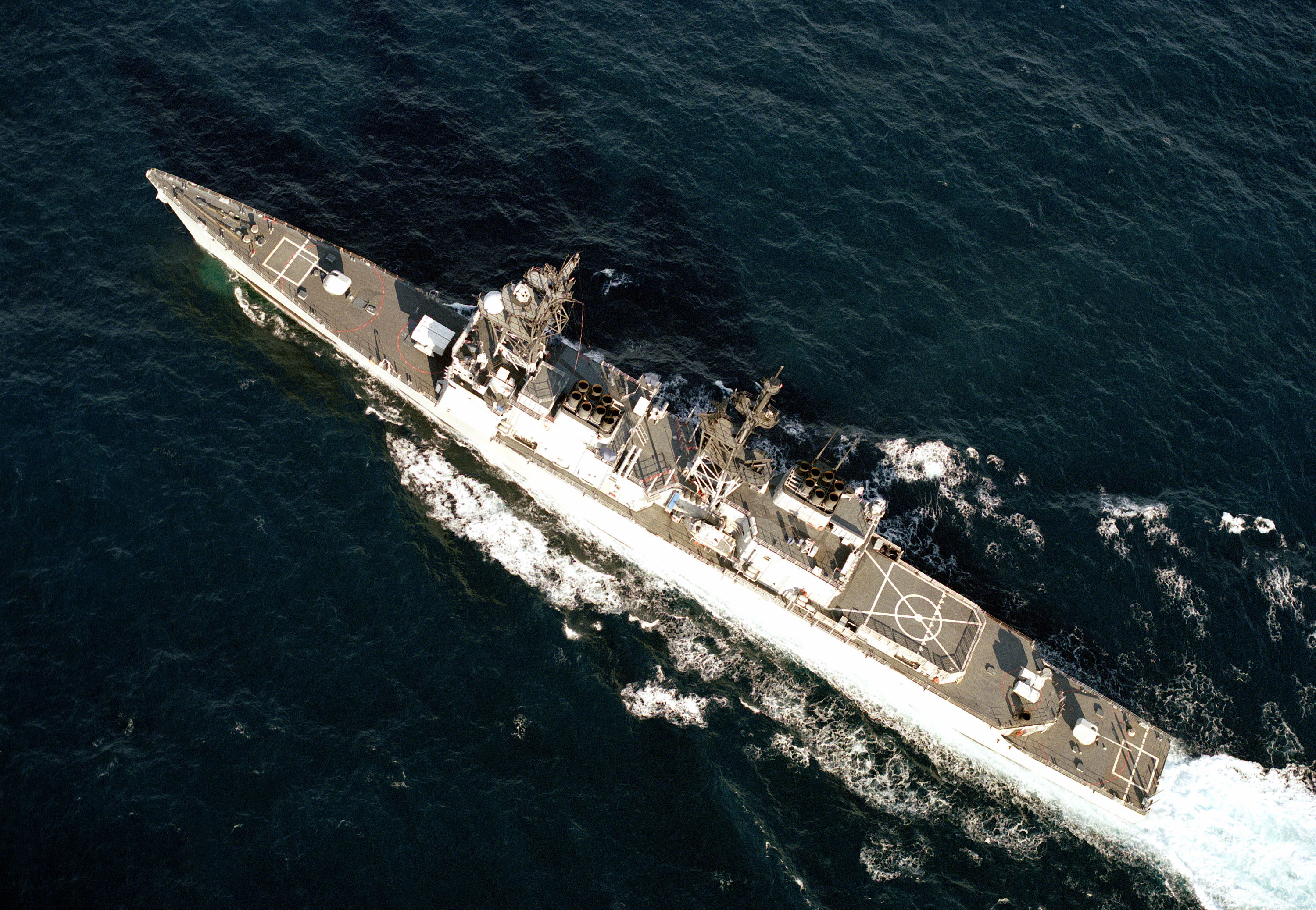 An elevated port view of the destroyer USS PAUL FOSTER (DD 964) underway.